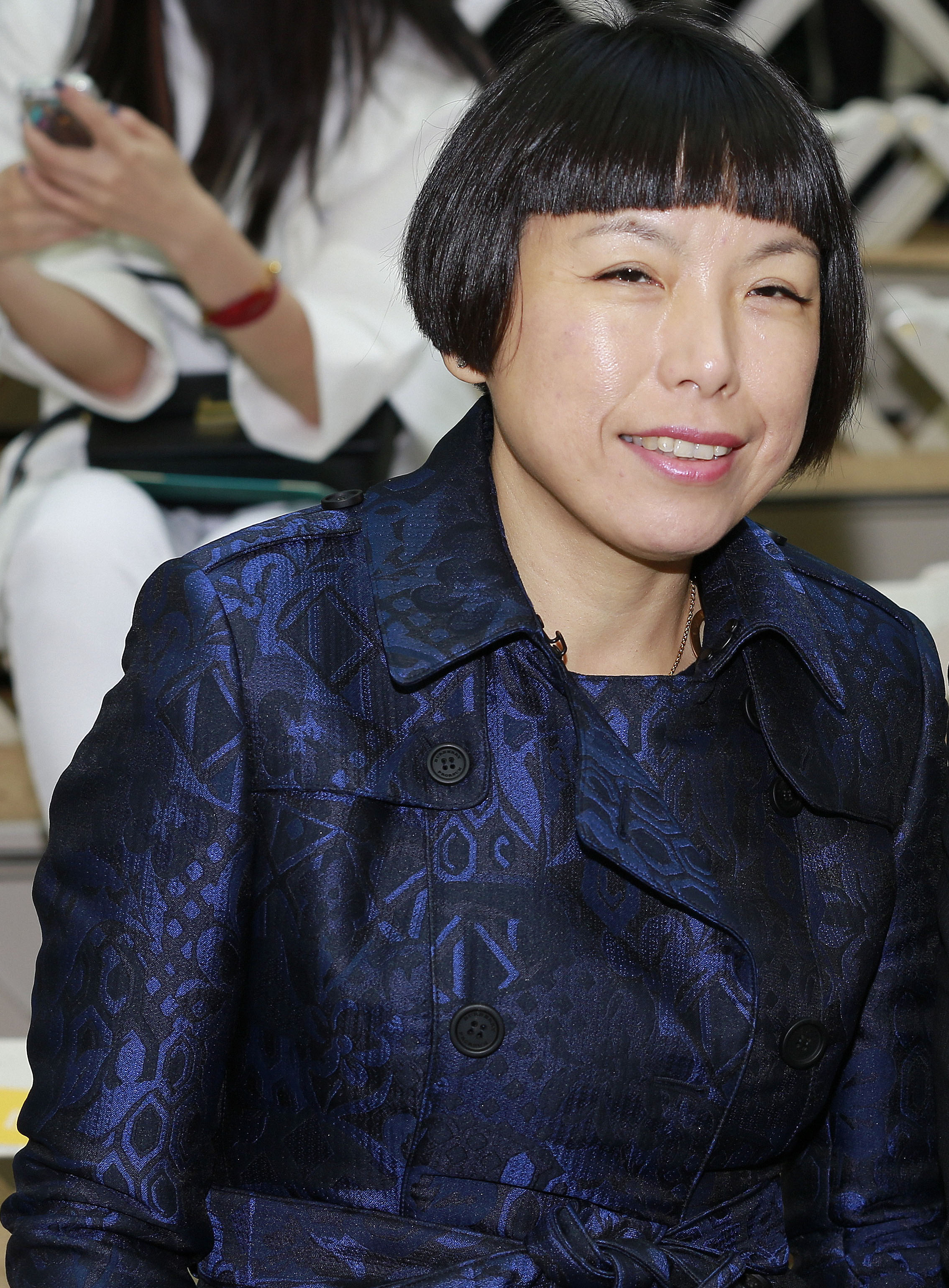 vogue